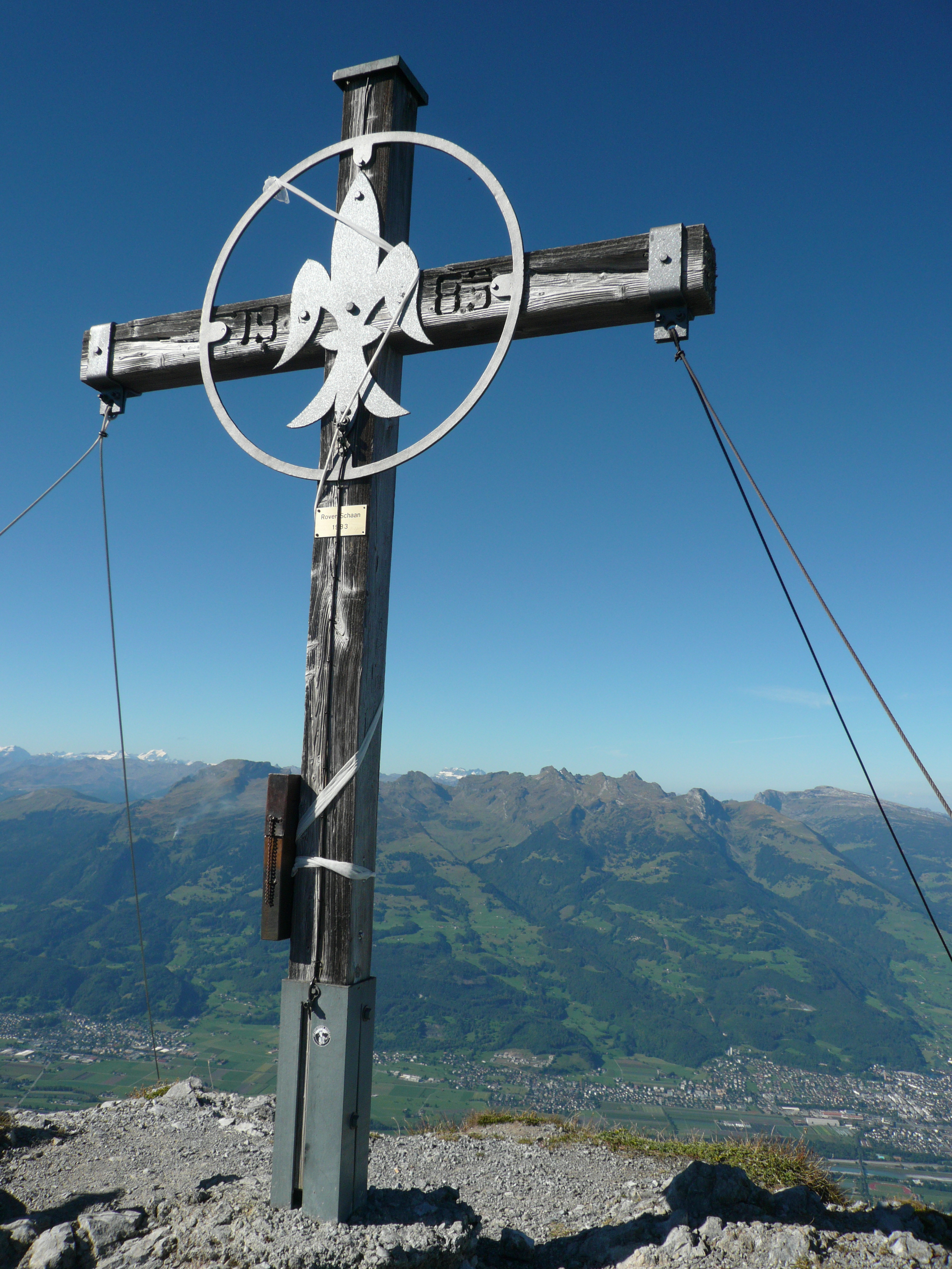 On top of Kuegrat mountain, Liechtenstein